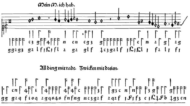 A comparison lute notation in Arnolt Schlick's Tabulaturen etlicher lobgesang und lidlein uff die orgeln un lauten (Mainz, 1512): first example from Mein M. ich hab, second example from All Ding mit radt (both are facsimiles).